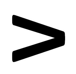 Greater than symbol